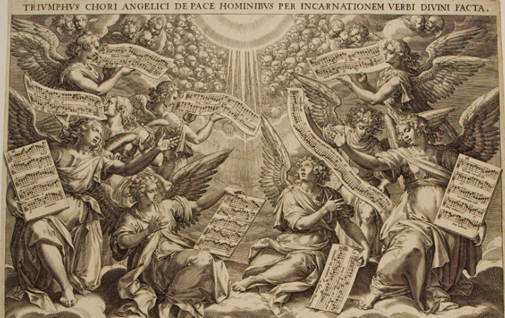 Original Language Title: Triumphus Chori Angelici de Pace Hominibus per Incarnationem Verni Divini Facta